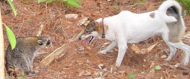 West Siberian Laika Chara at work in Florida